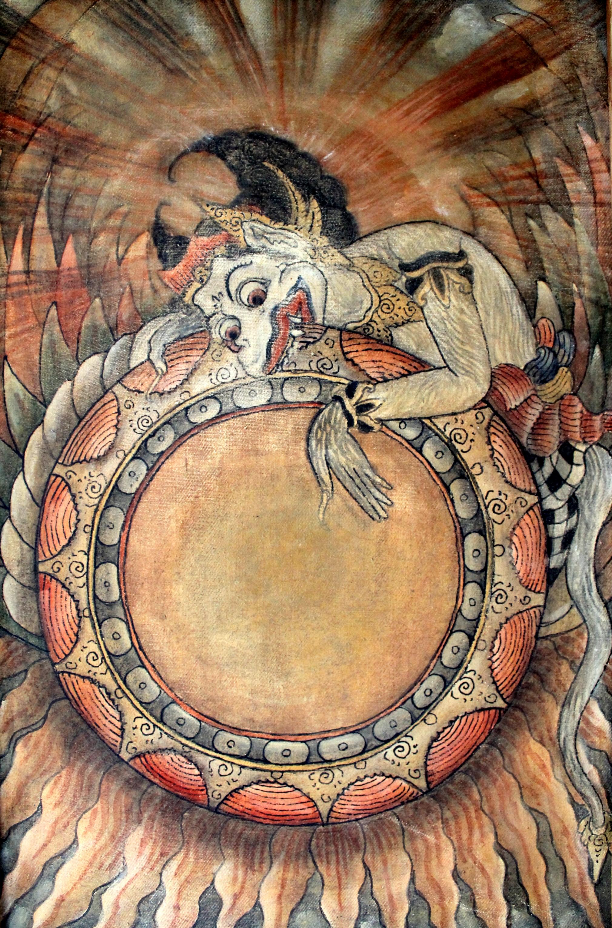 Important Hinduism Mythology Indonesia - Balinese - Javanese Wayang Painting, Triad deity "Rahu - Hanuman - Ketu -" swallow the Sun - Moon, ink - watercolor painting on cotton, source is a property of my asian art collection, similar items you see here